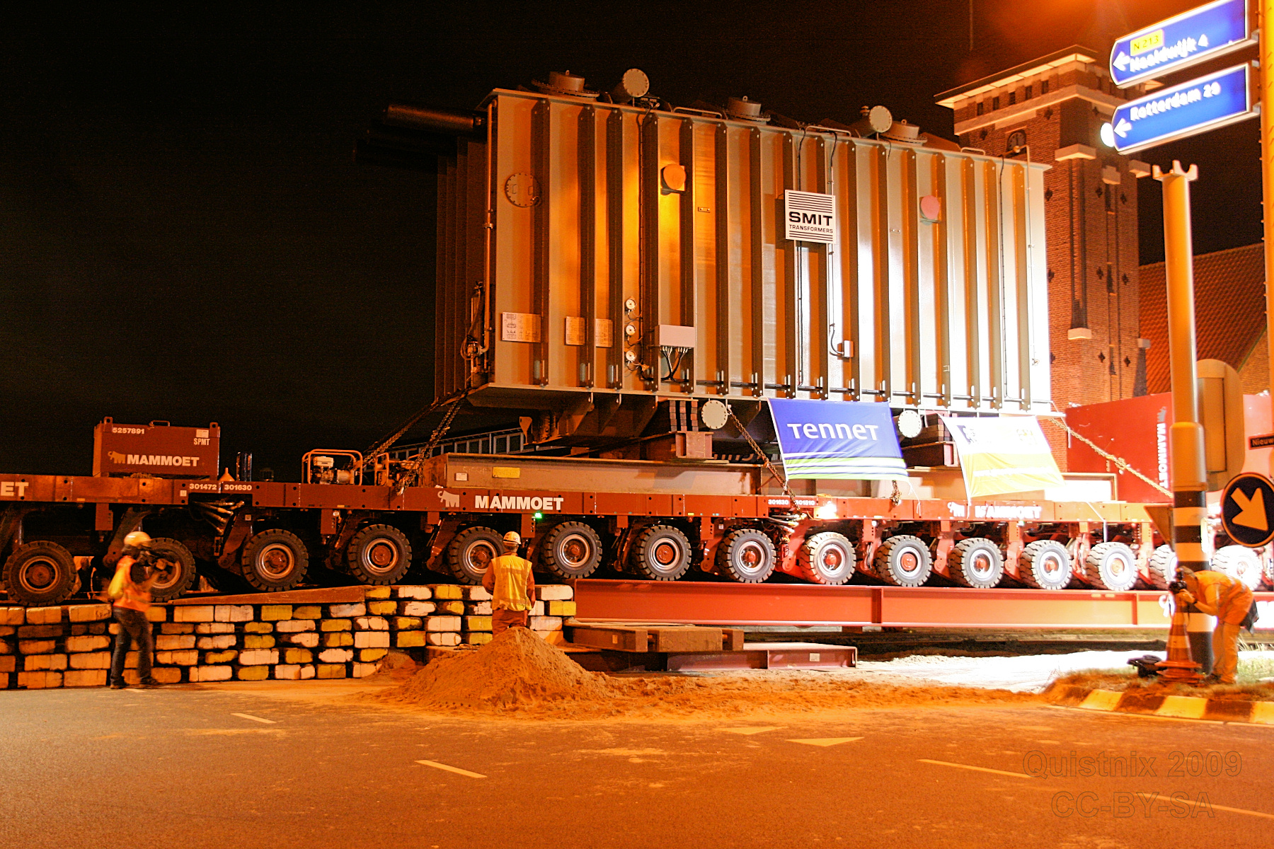 Smit (SGB-SMIT) 380 kV transformer (for a TenneT substation), Mammoet transport in Poeldijk, Netherlands. – The wheels can move up and down, to follow the shape of the road.